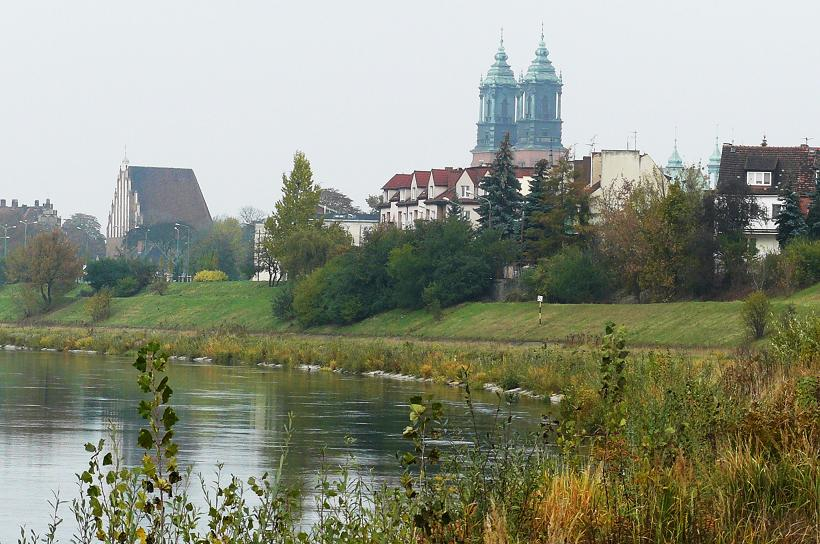 Zagórze District - Poznan.